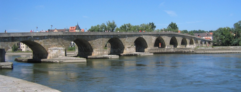 Stone Bridge in Regensberg, Bavaria, from the south bank